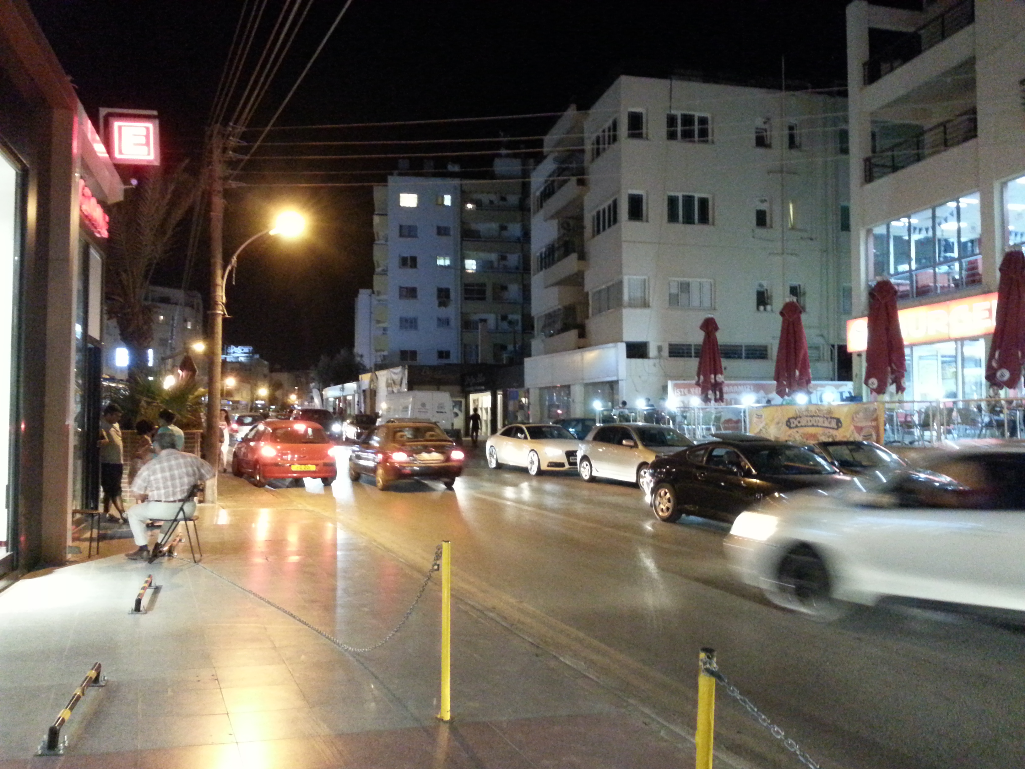 A view from the bustling Dereboyu Street at night